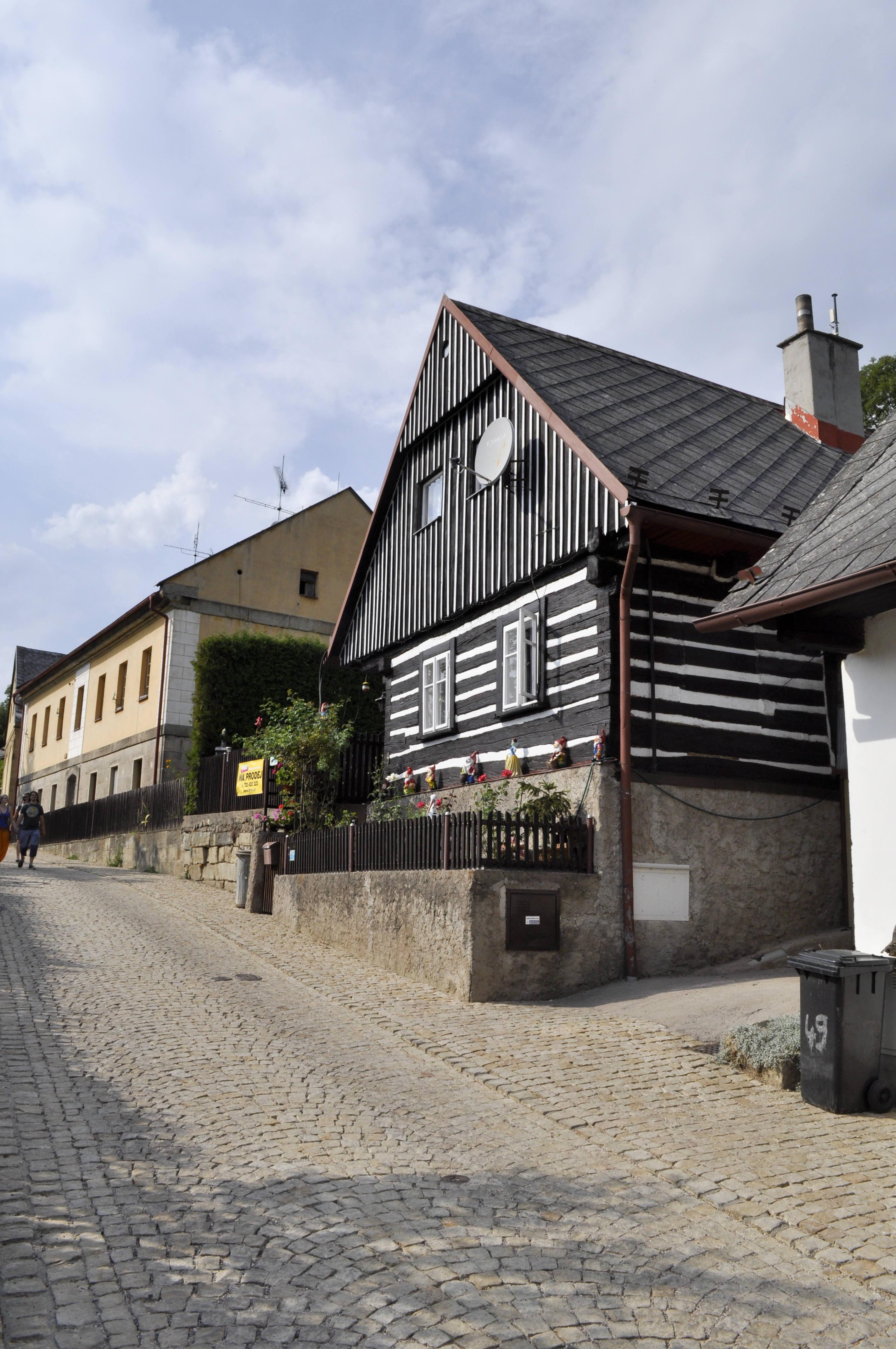 Country house Kuks 50